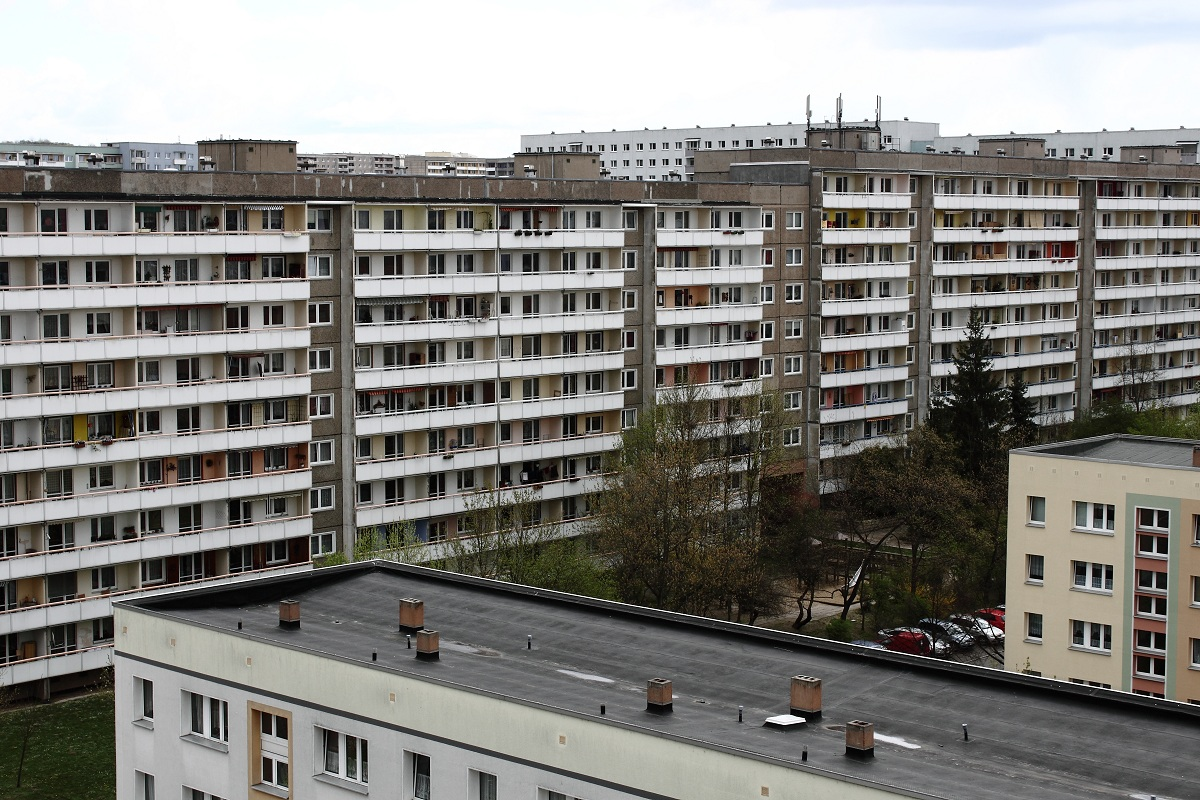 Lobeda-West Plattenbau